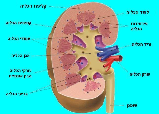 las partes del riñon. hebrew captions by Yosi I